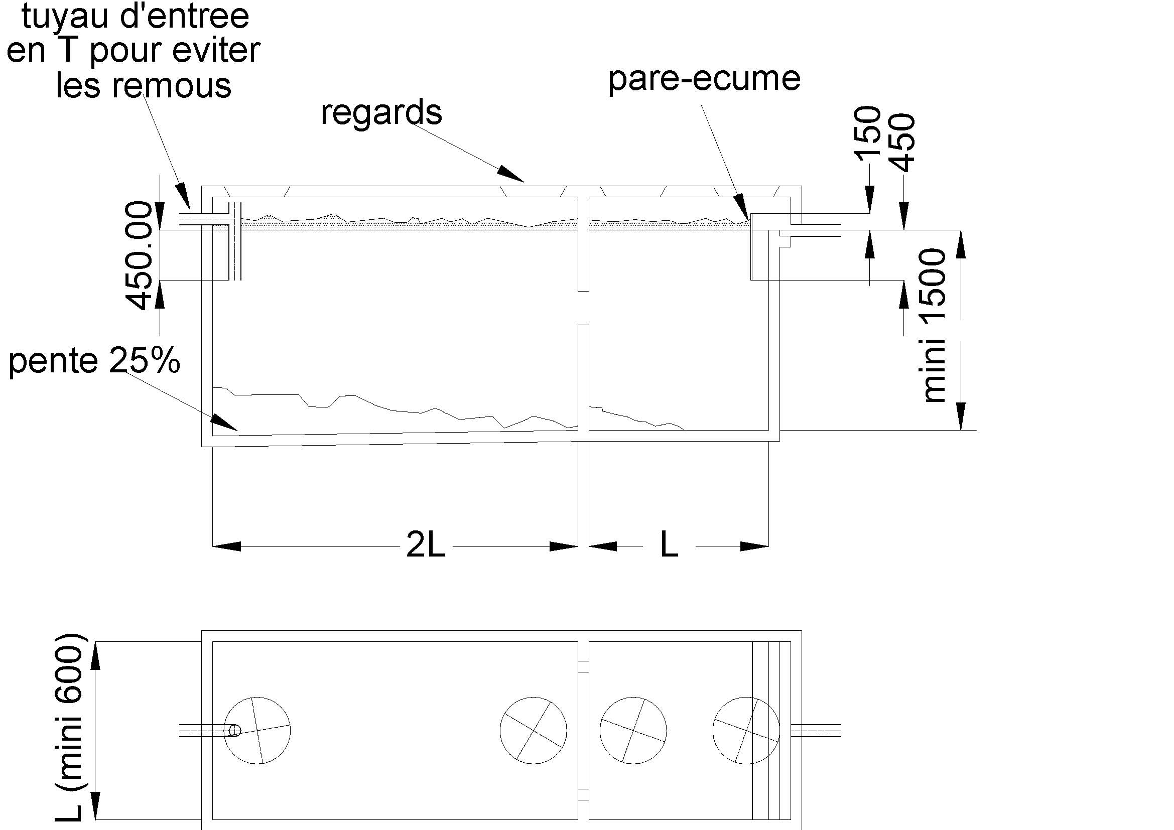 Global sheme of a septic tank